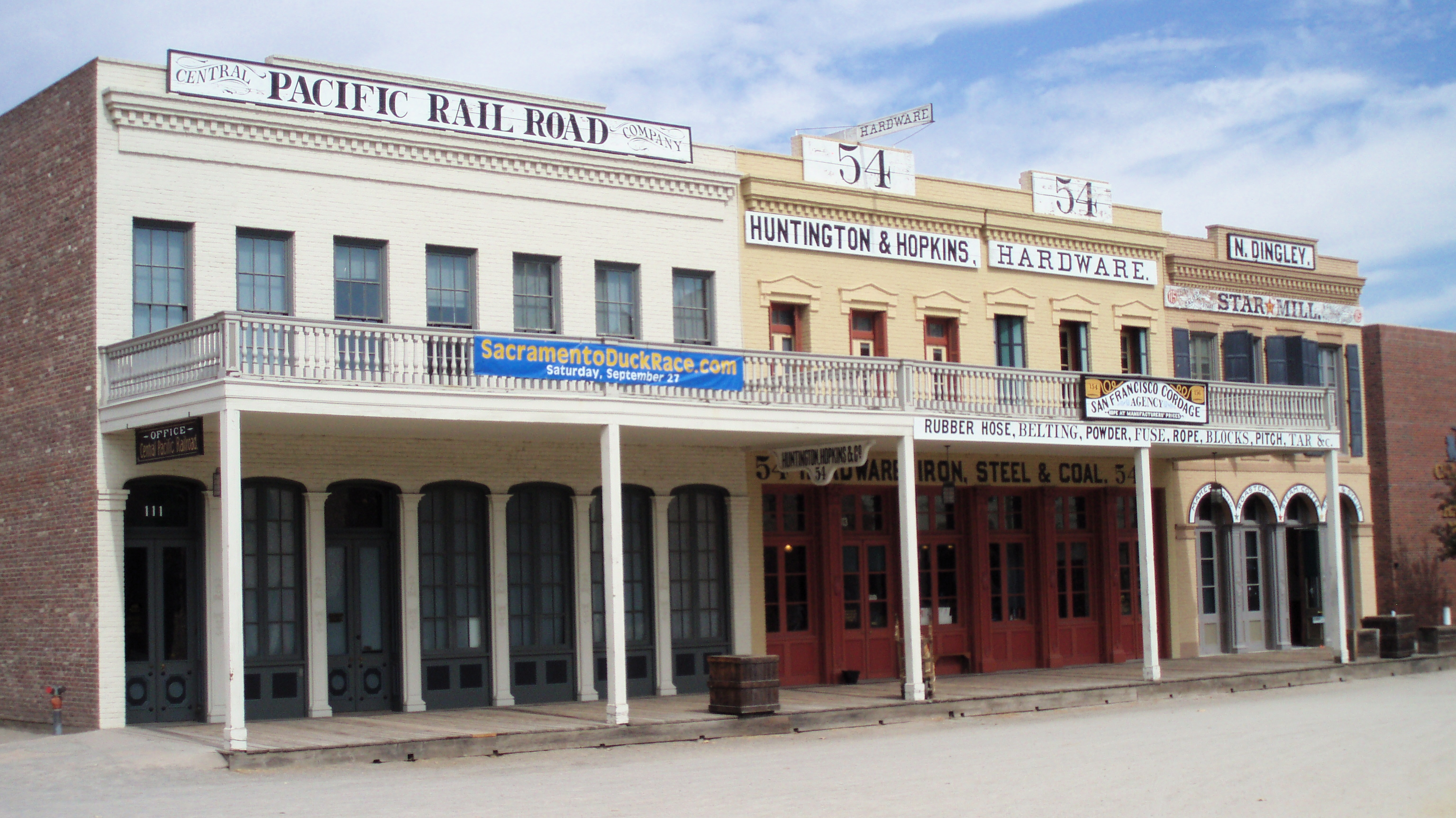 The Big Four House (also known as the Big Four Building), built circa 1852–1855, originally housed the Huntington, Hopkins & Company Hardware Store and the Stanford Brothers Warehouse. The building was refurbished in the Italian Renaissance style during the early 1880s. Eventually the structure was relocated to the Old Sacramento Historic District during the 1960s.